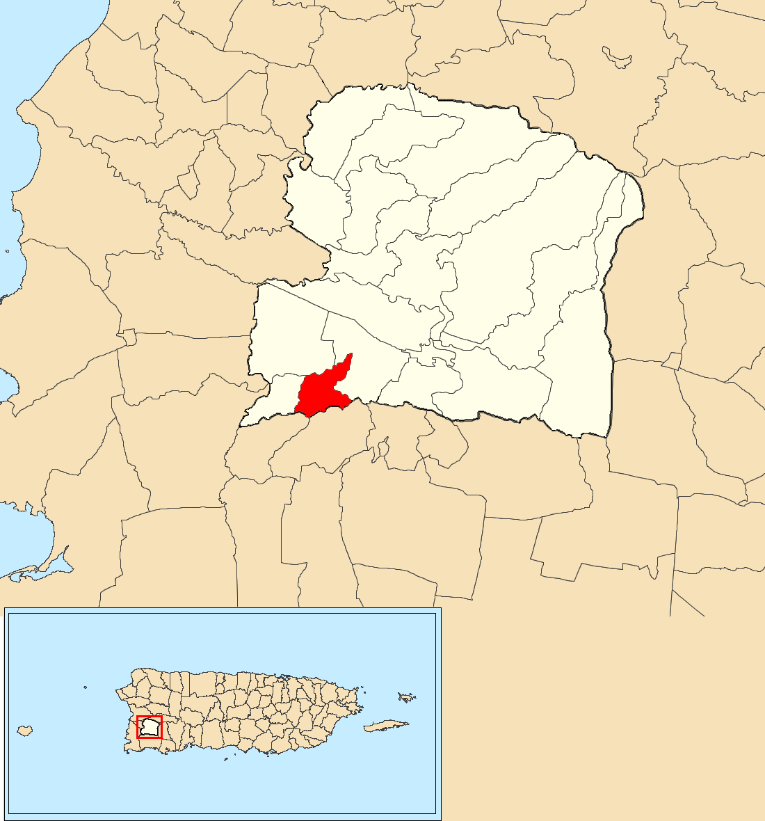 Cotuí, San Germán, Puerto Rico locator map